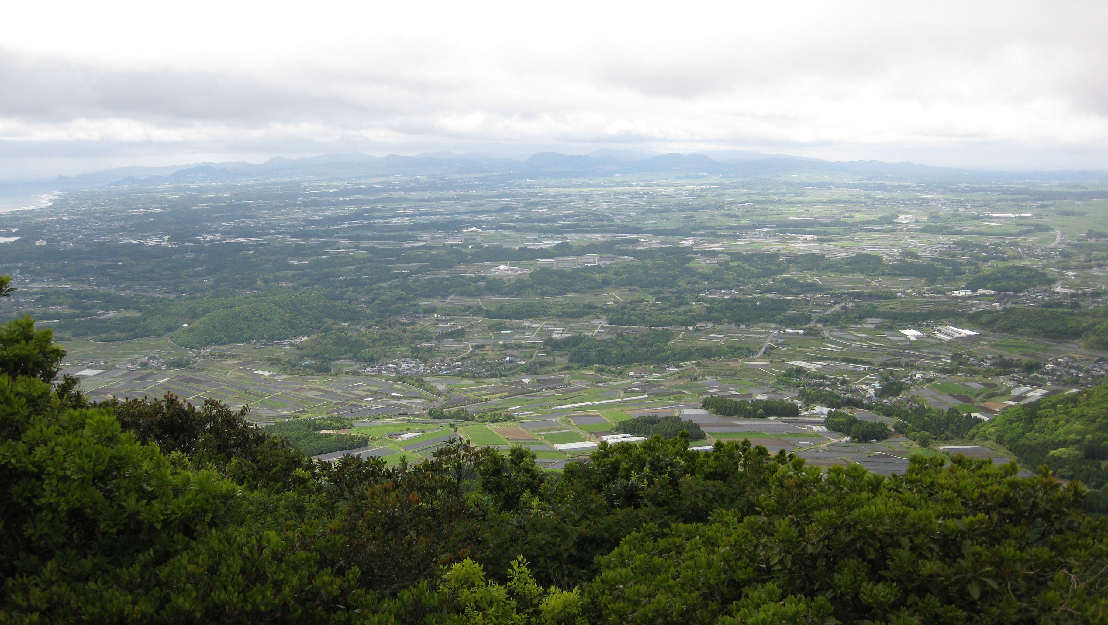 Nansatsu Plateau in Kagoshima, Japan